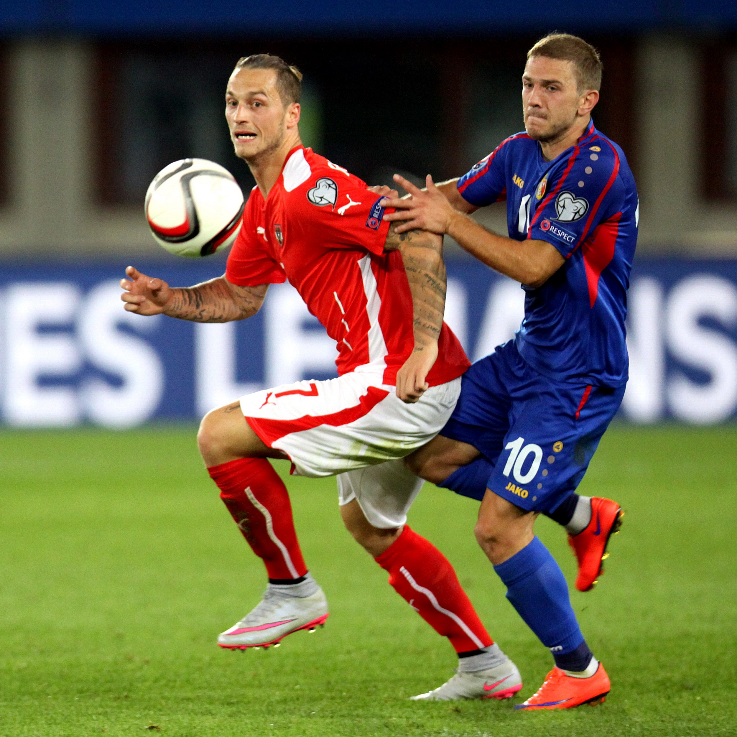 UEFA Euro 2016 qualifying, Group G – Austria national football team (red shirts) vs. Moldova national football team (blue shirts) on 2015-09-05 in Ernst-Happel-Stadion, Vienna: The photo shows Marko Arnautović (left) and Alexandru Dedov (right)